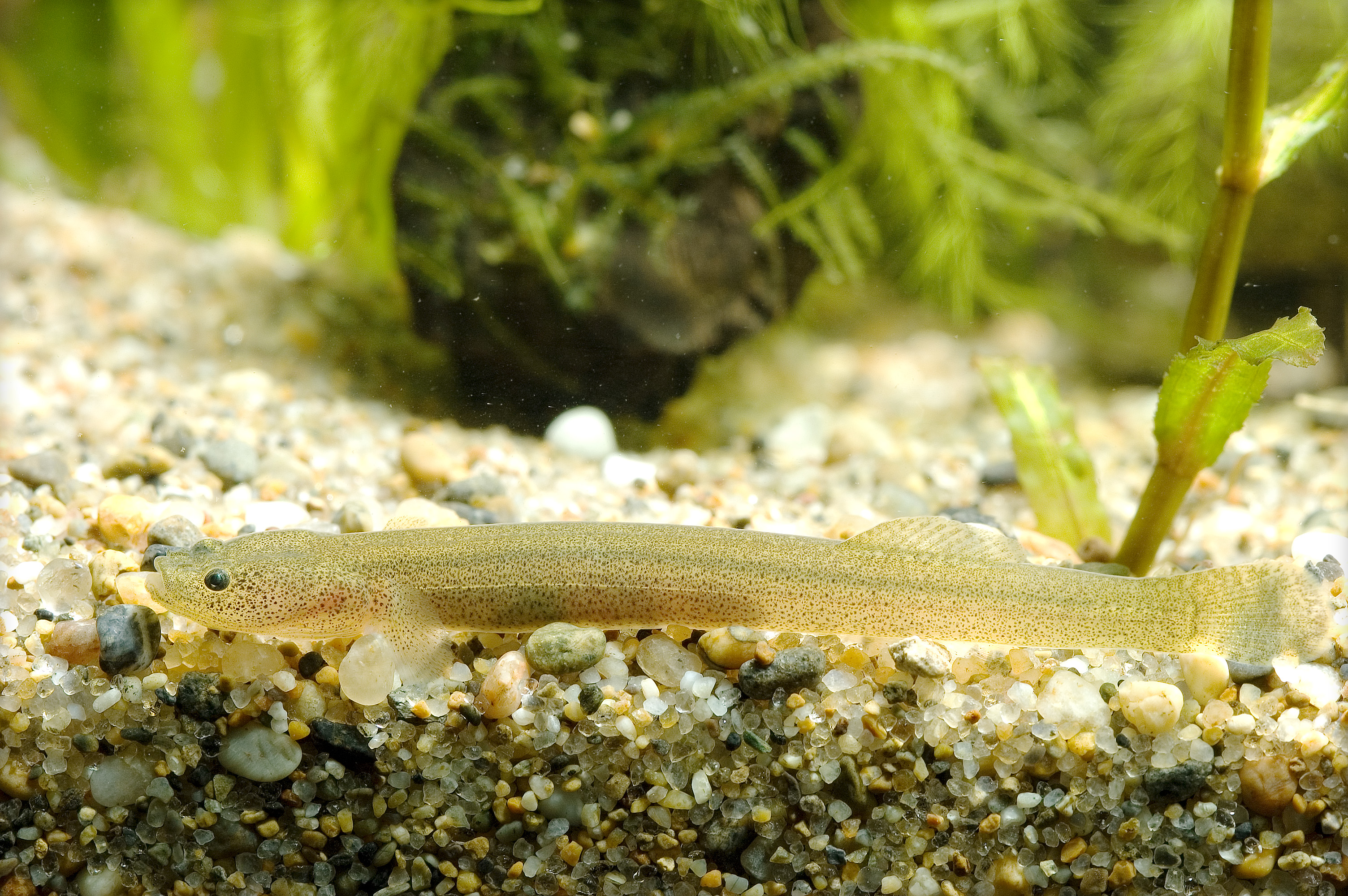 Mimizuhaze(Flat-headed Goby), Luciogobius guttatus, from Yaizu, Shizuoka, Japan.